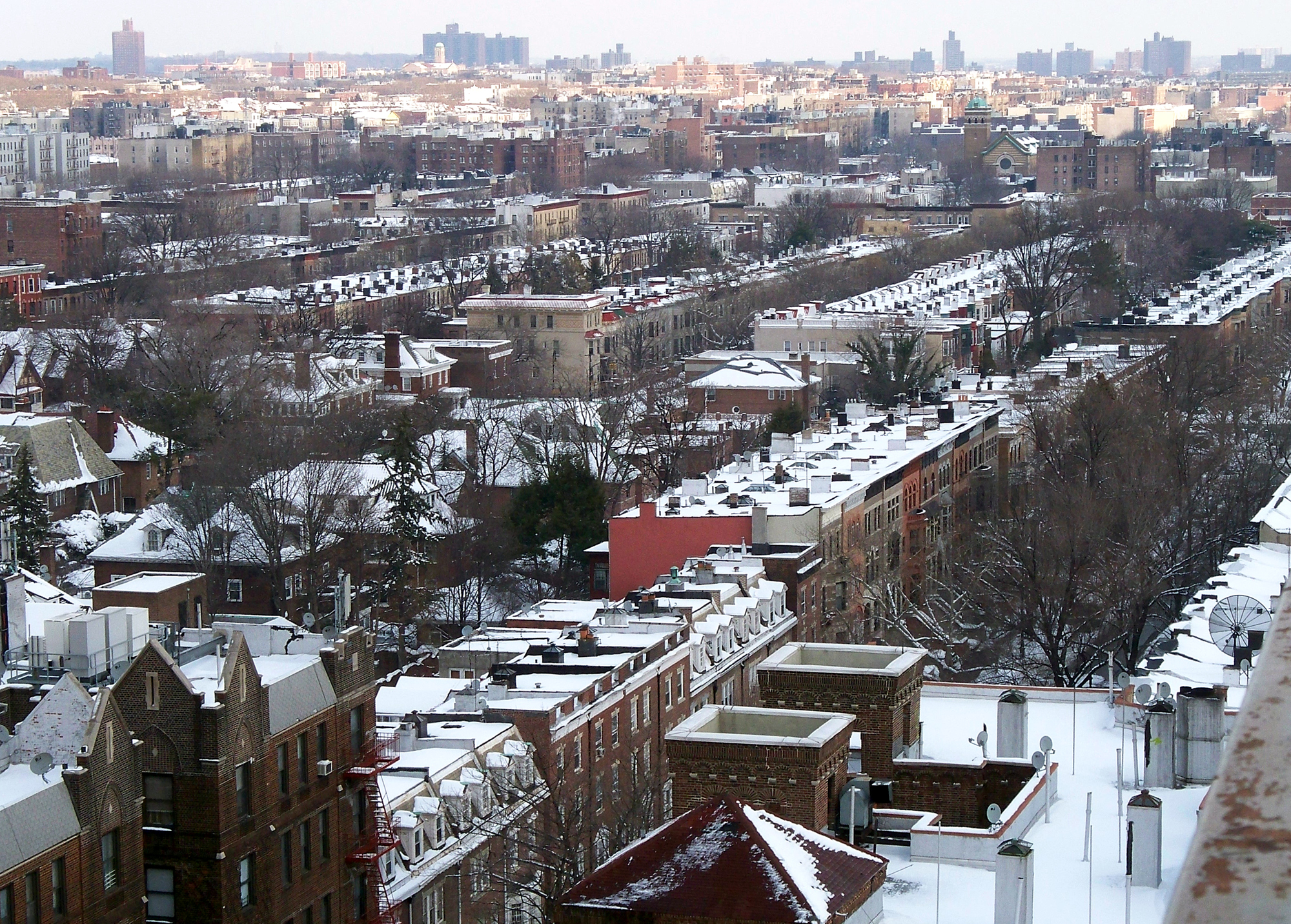 Photograph of NE Prospect Lefferts Gardens taken from 17th floor balcony